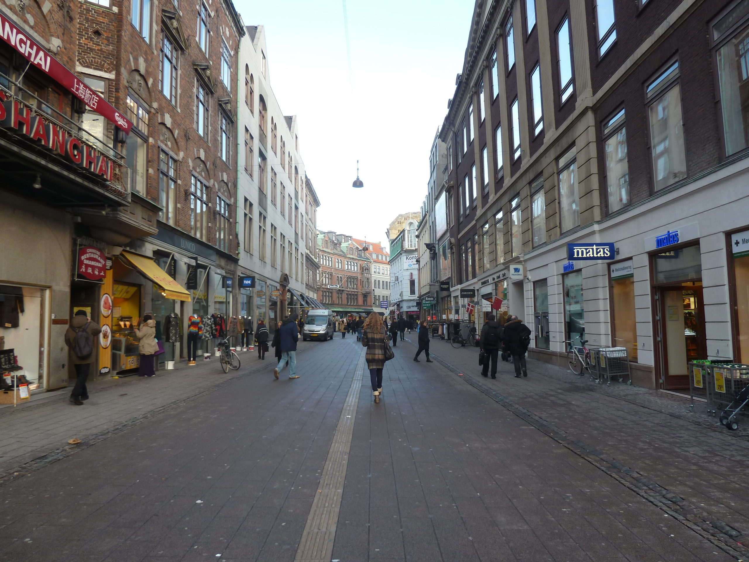 The street Nygade in Indre By in Copenhagen.